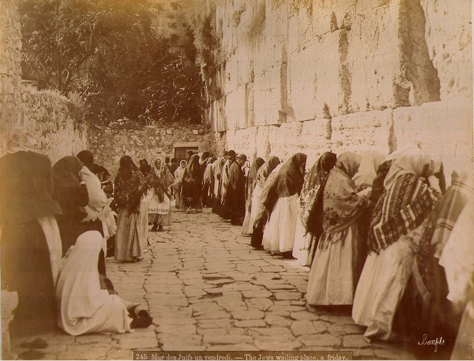 Félix Bonfils (1831-1885) - "245 - Mur des Juifs, un vendredi - The Jews wailing place, a friday" in Jerusalem, then Palestine. Catalogue n. 245. Circa 1880s.